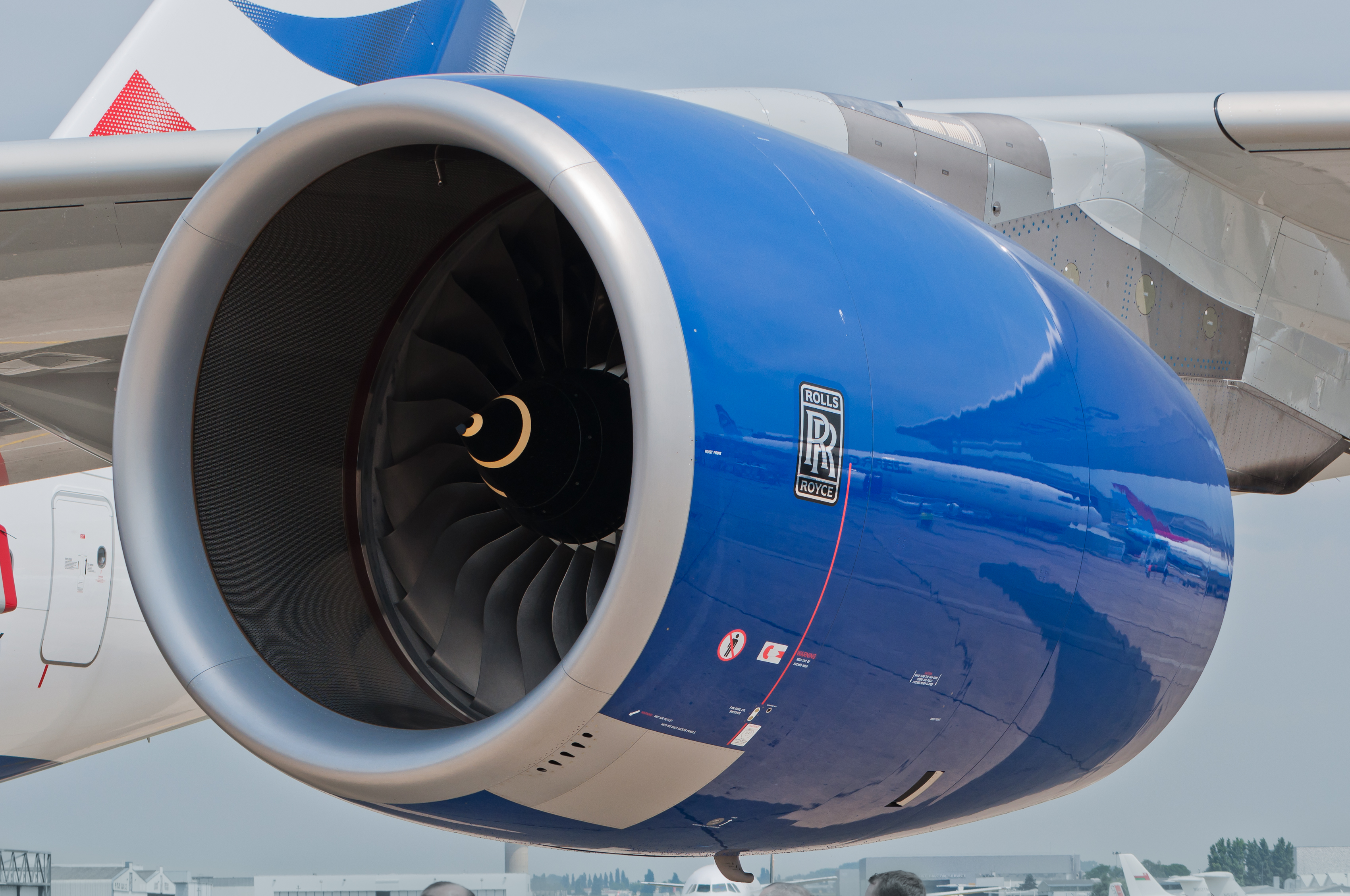 Trent 970 engine of an British Airways Airbus A380-841 (reg. F-WWSK, c/n 095, normally G-XLEA) at Paris Air Show 2013.